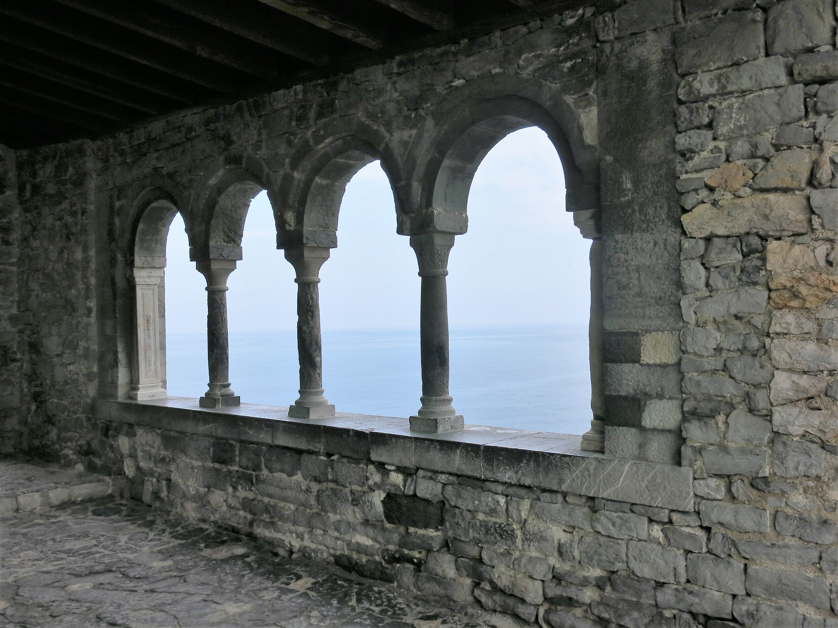 Arcades of the church San Pietro. Porto Venere (Liguria, Italy).